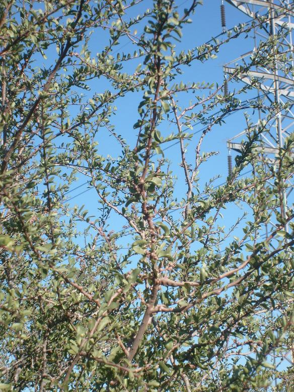 Schinus polygama galls, lysenchimatical globose. Winter type